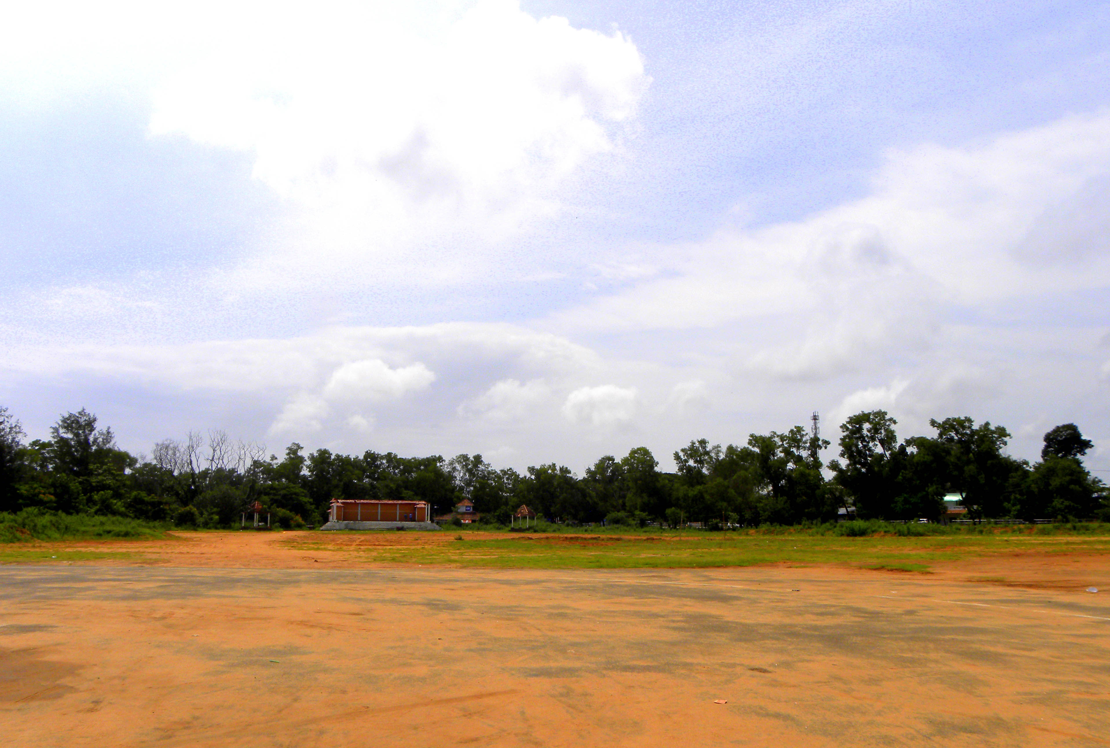 Asramam Maidan, Kollam - The biggest open space available in any of the cities in Kerala. Asramam Maidan was the only Airport in Kerala before the Independence of India